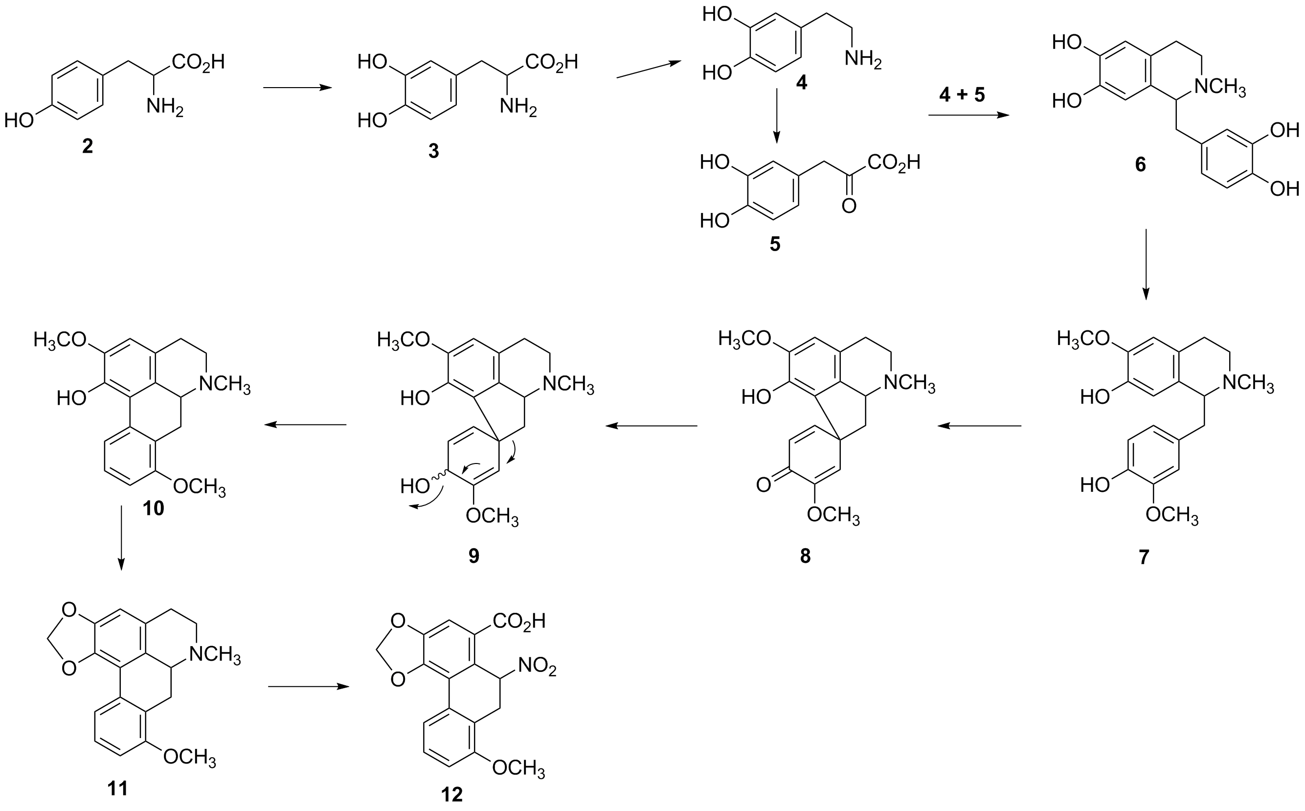 Biosynthetic pathway of Aristolochic Acid